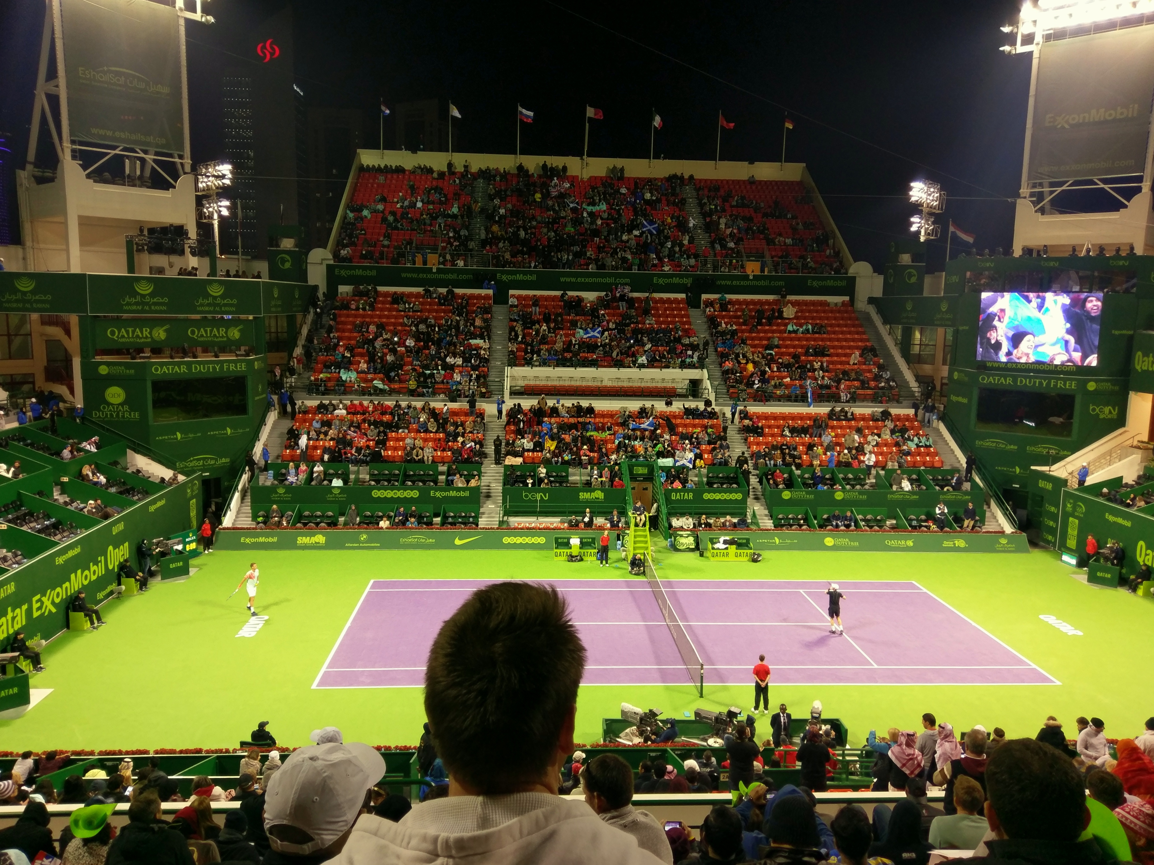 Qatar open 2017 Semifinal, A. Murray vs T. Berdych. Doha, Qatar